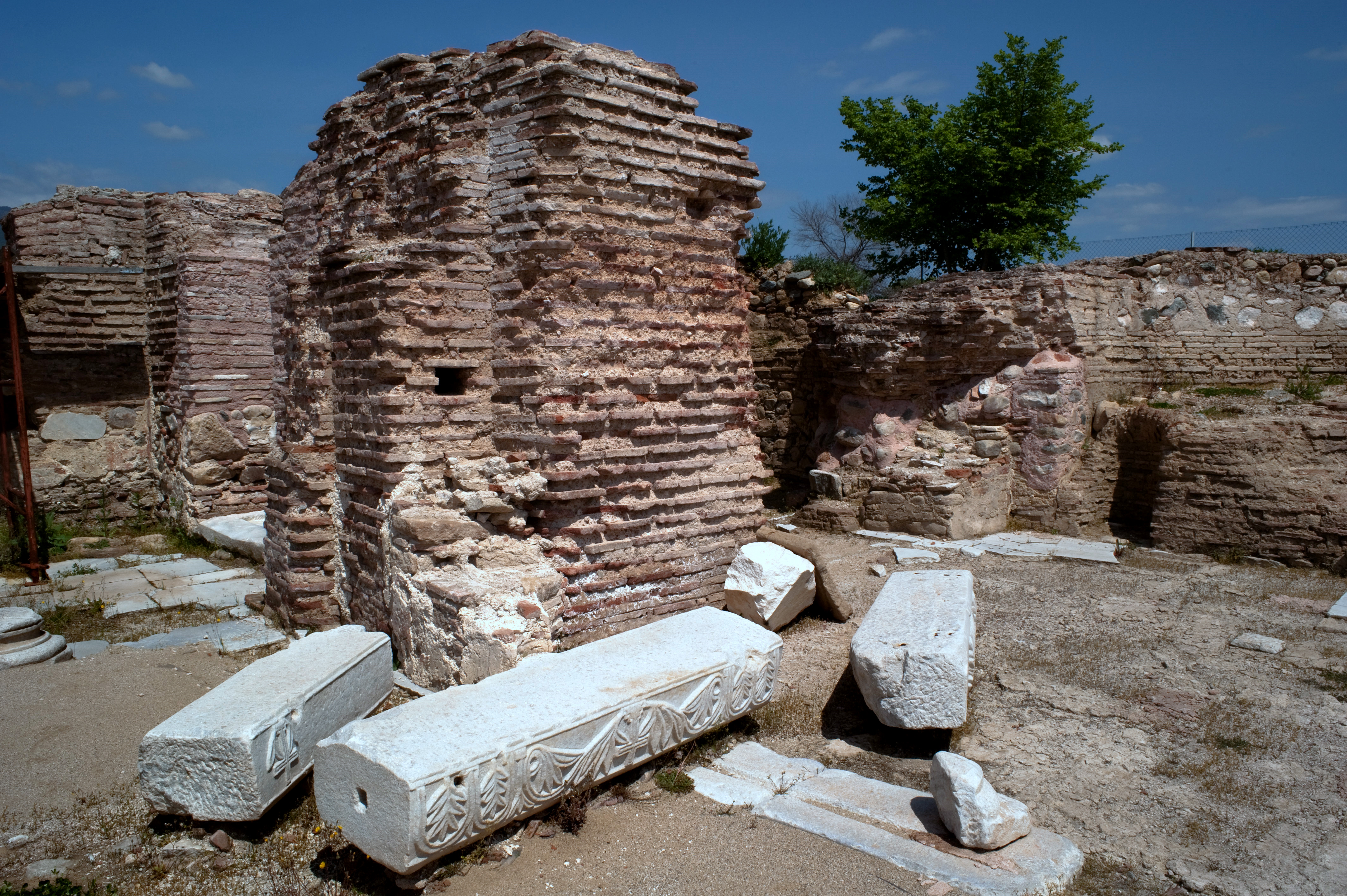 Maximianoupolis - Mosynopolis: Α Central plan church, Rhodope, Thrace, Greece.